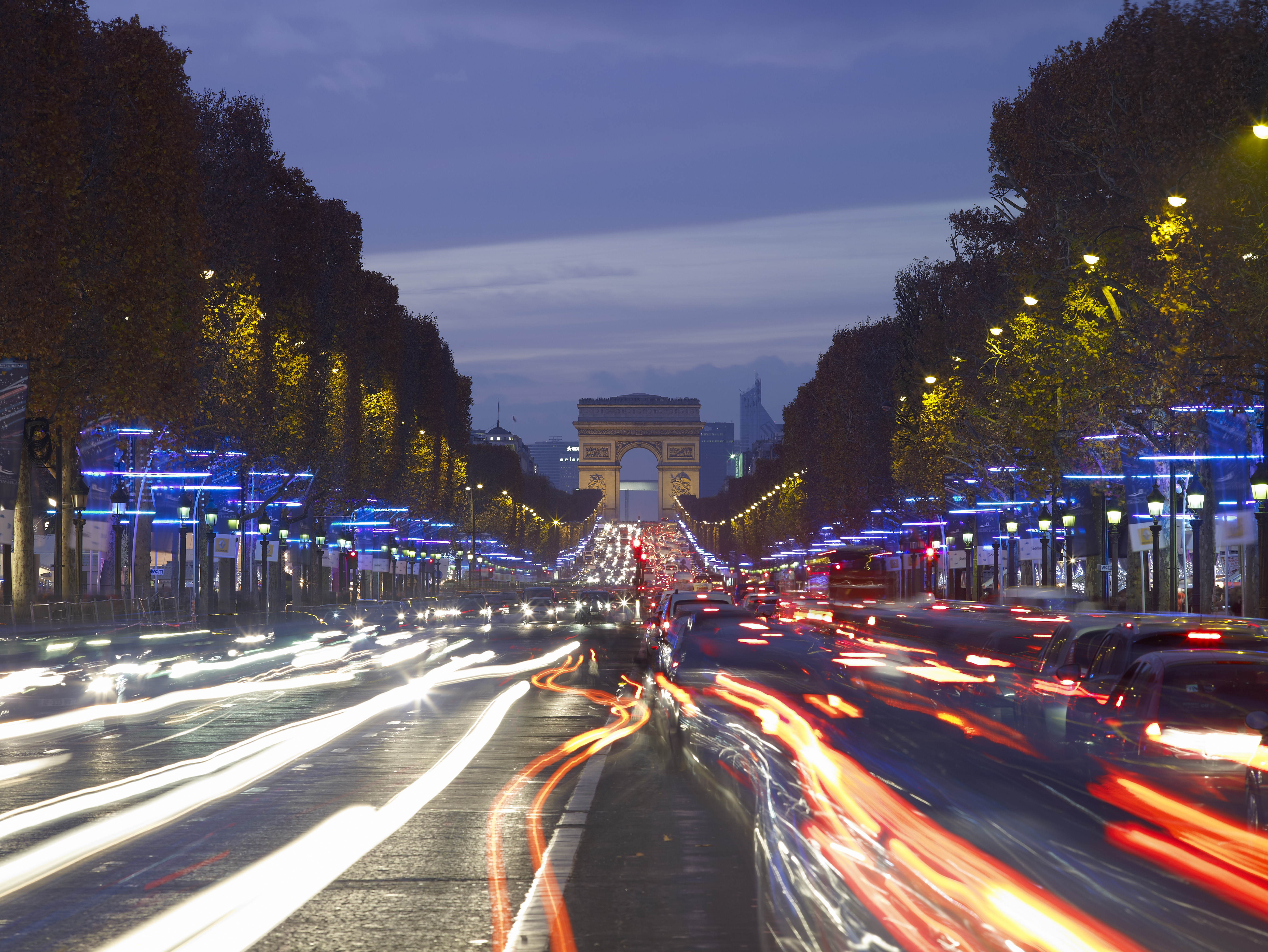 Koert Vermeulen principal lighting designer & Marcos Vinals Bassols artistic director: "Tree rings", 2011, LED tube lighting, light art installation for christmas lighting, Avenue des Champs-Elysées, Paris, France.